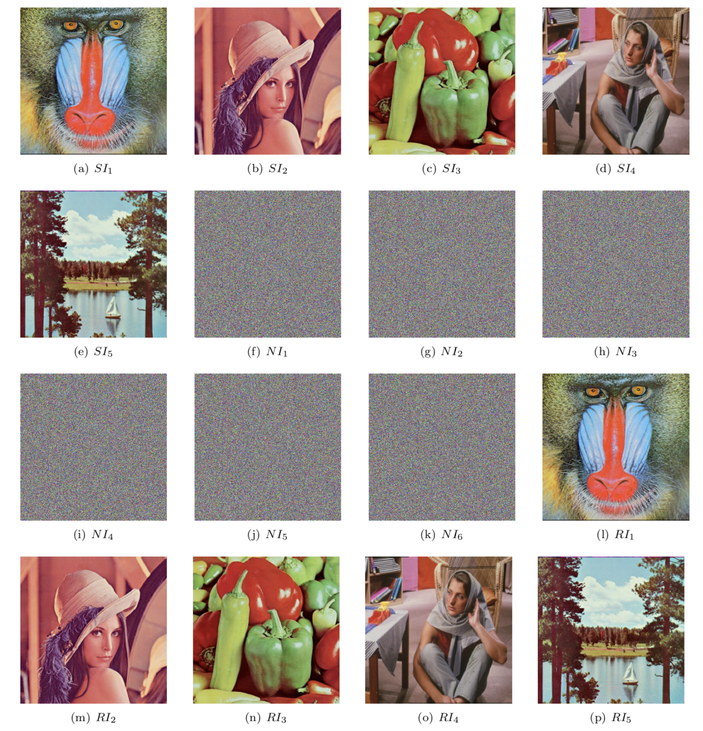 demo of msis